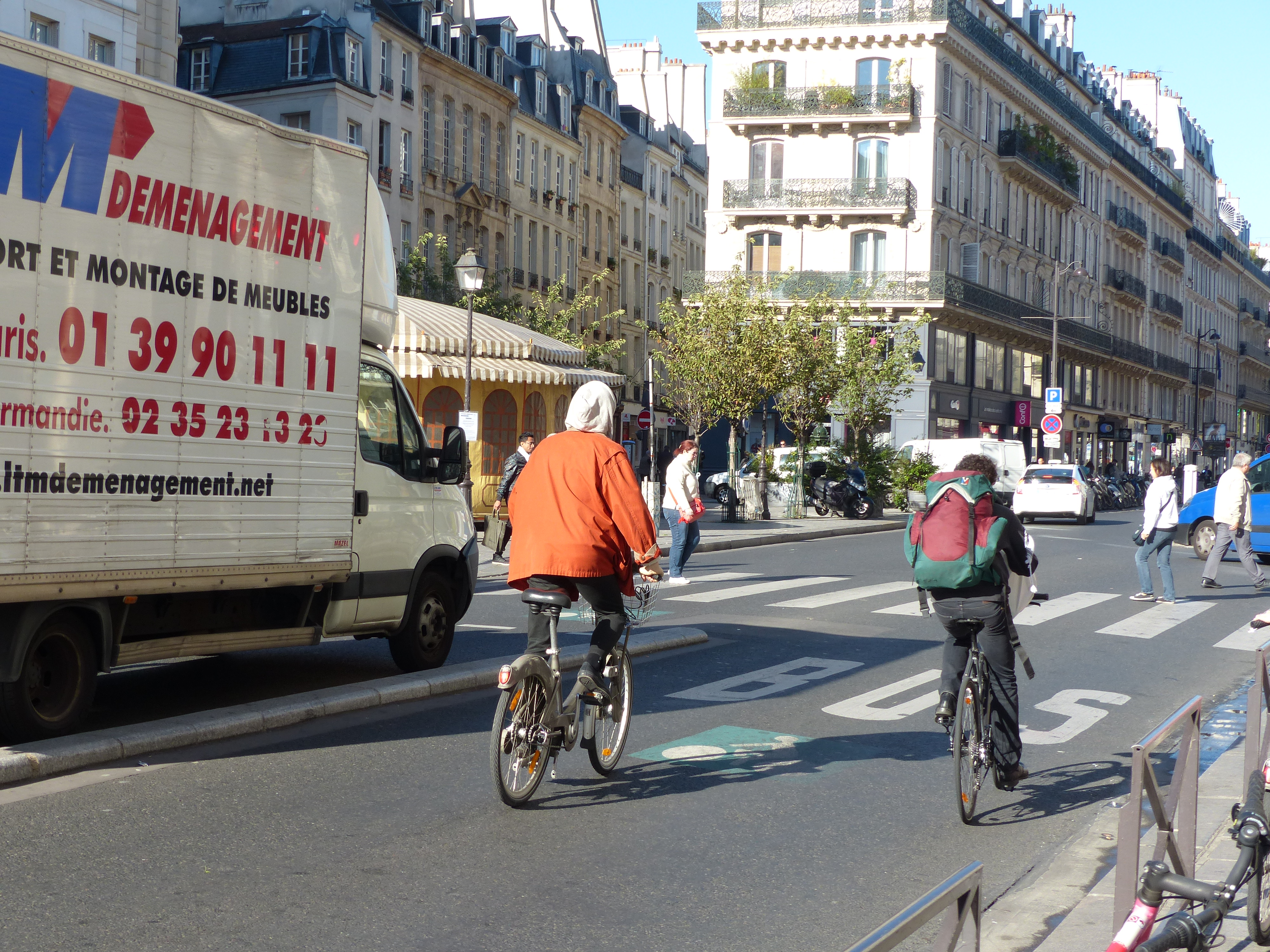 Rue Saint-Antoine in Paris, bicycle pictograms both on the bus lane (main put not obligatory cyclist guide) and on the car lanes. n the left a public bike